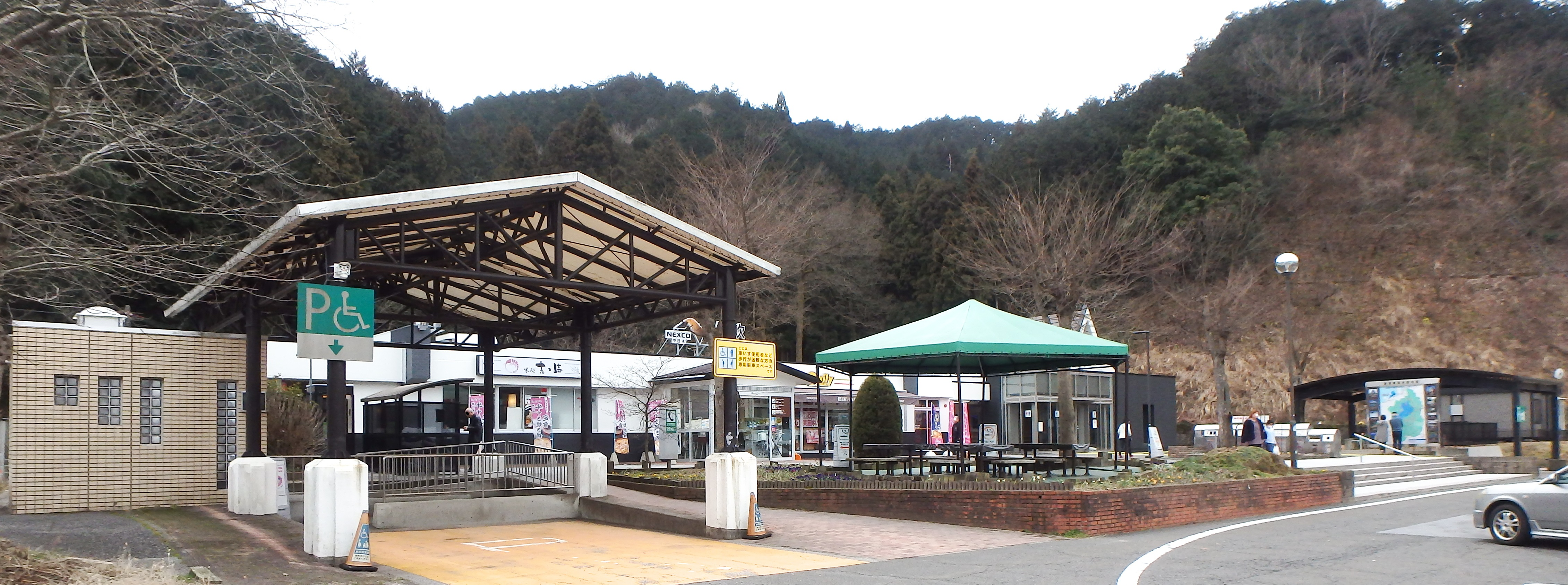 Ibuki Parking Area for Kobe, Shiga prefecture,Japan